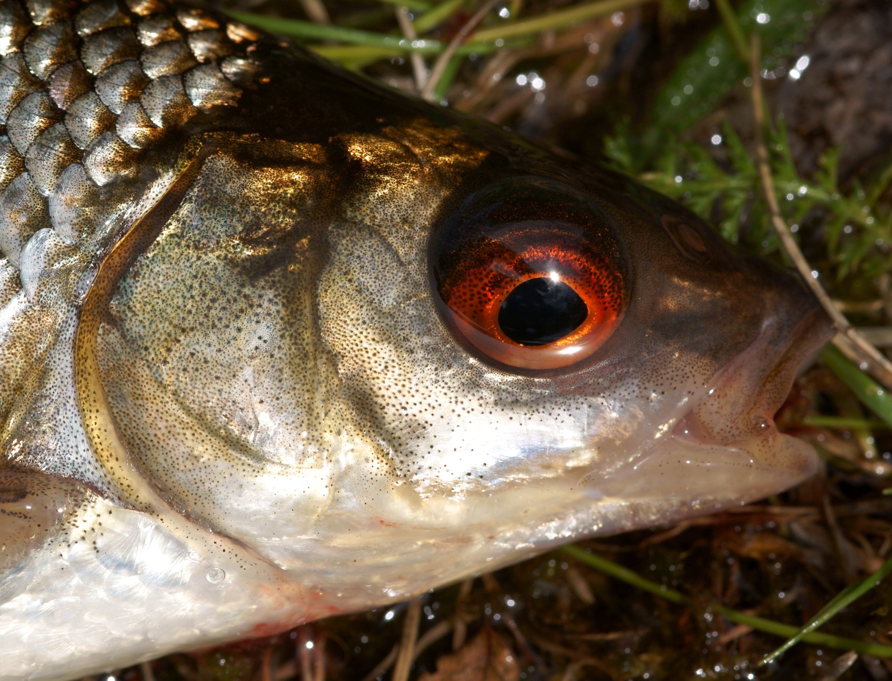 Head of Common Roach (Rutilus rutilus).